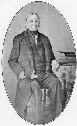 One of the few known photos of David Willson, founder of the Children of Peace. From the collection of the Sharon Temple Museum Archives.